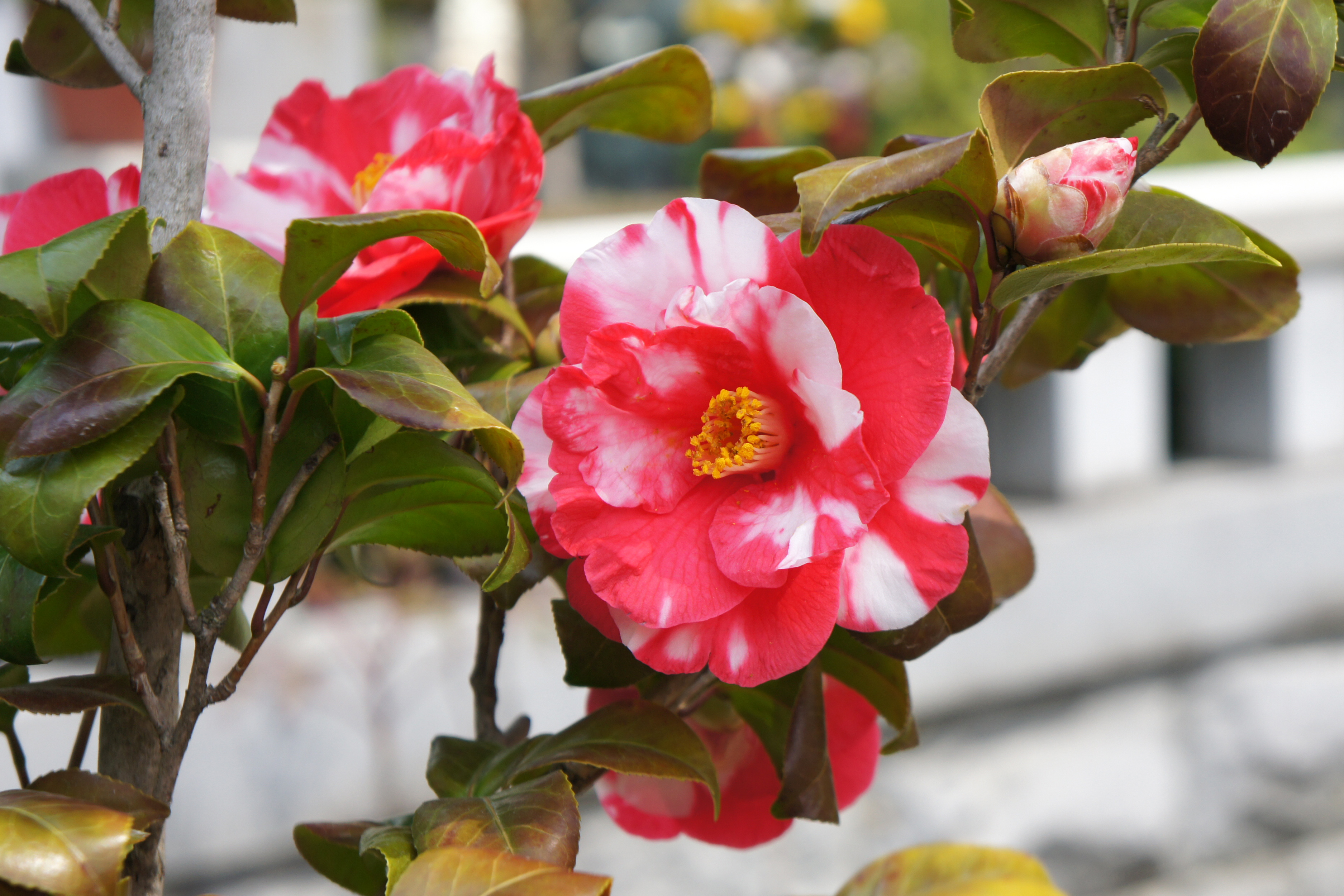 Shobo-ji in Nishikyo-ku, Kyoto, Kyoto prefecture, Japan